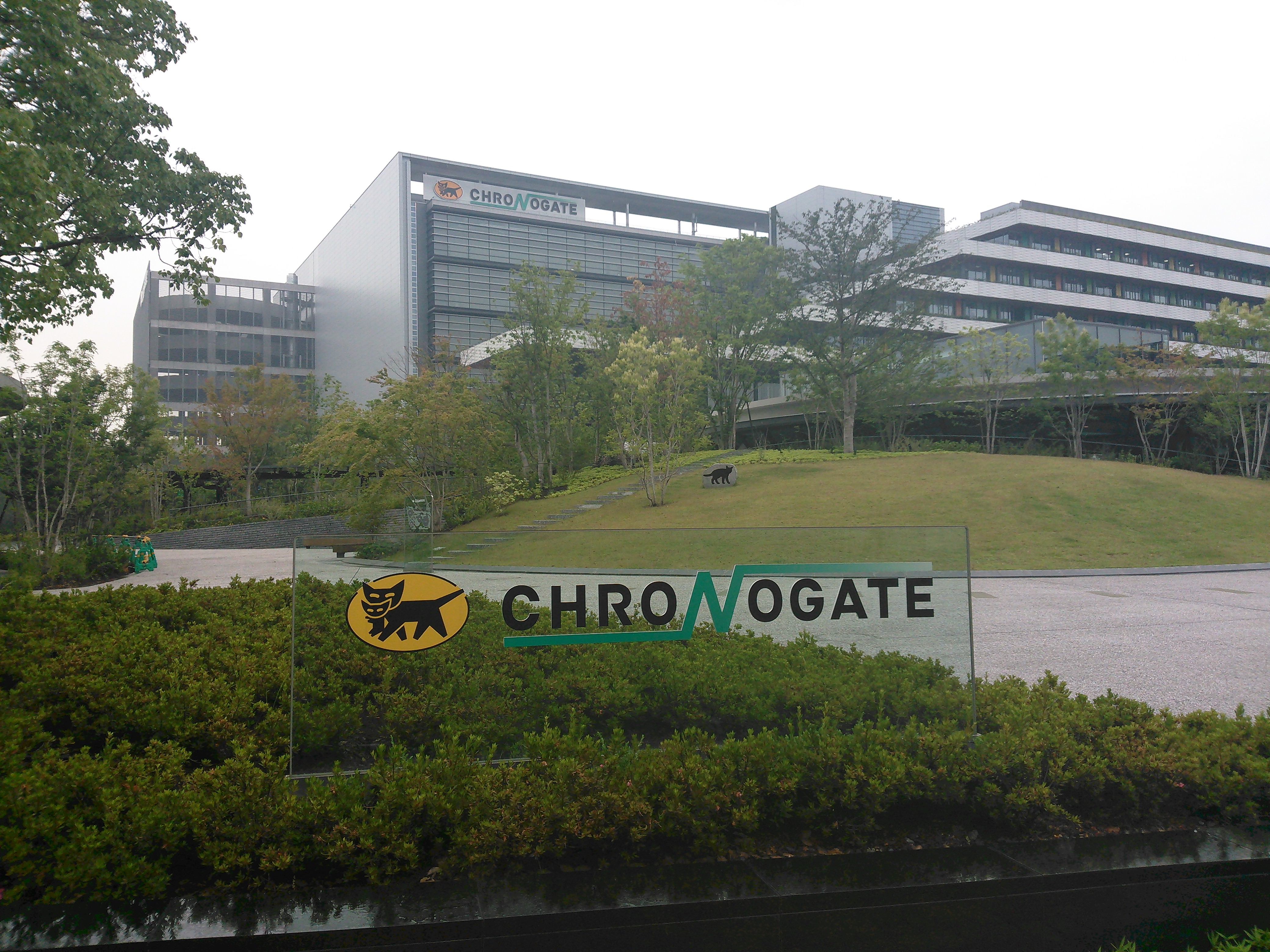 Yamato Transport Haneda Chronogate in Ota Ward, Tokyo, Japan